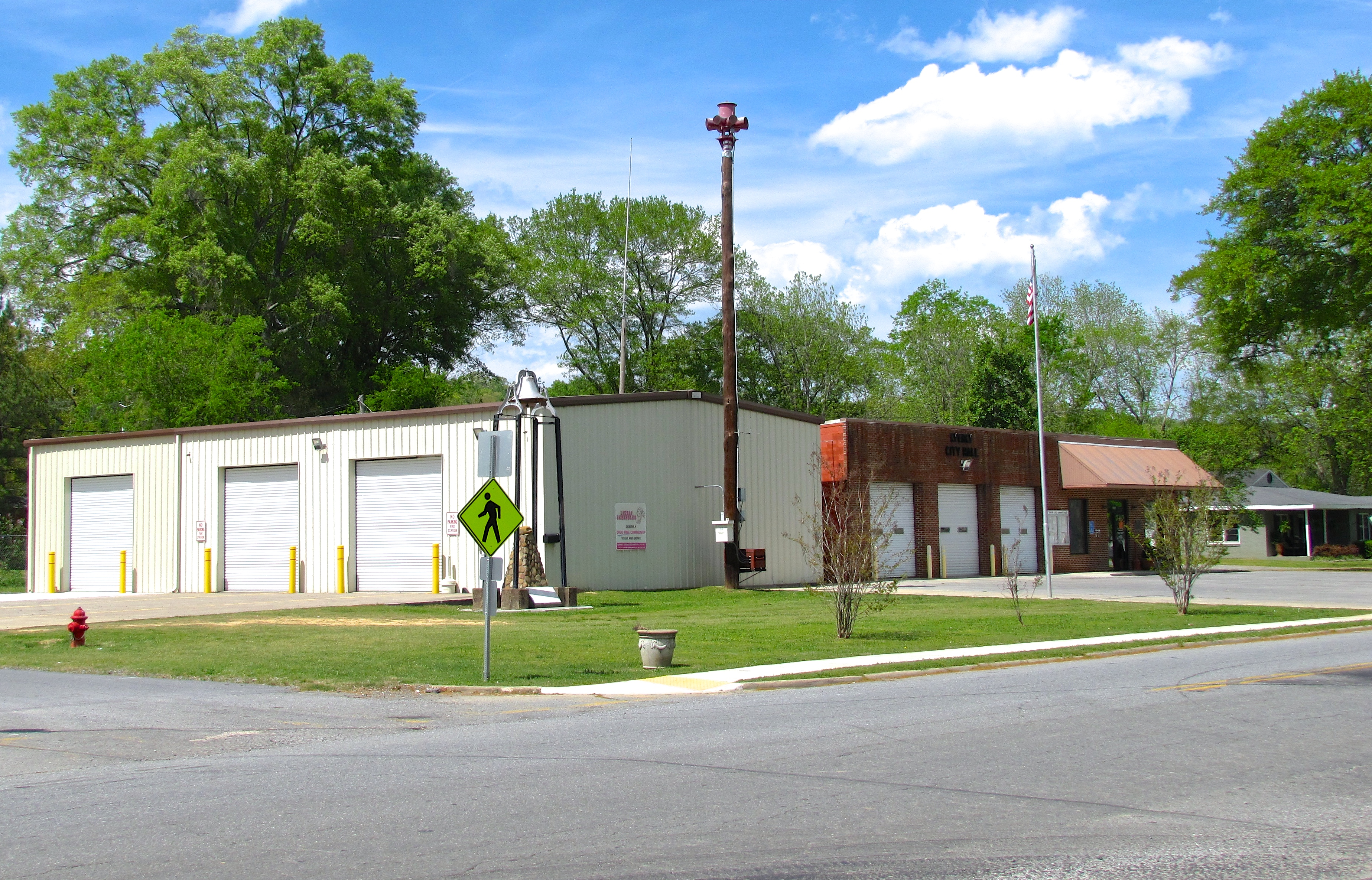 City Hall in Lyerly, Georgia, United States. The Lyerly Volunteer Fire Department occupies the building on the left.